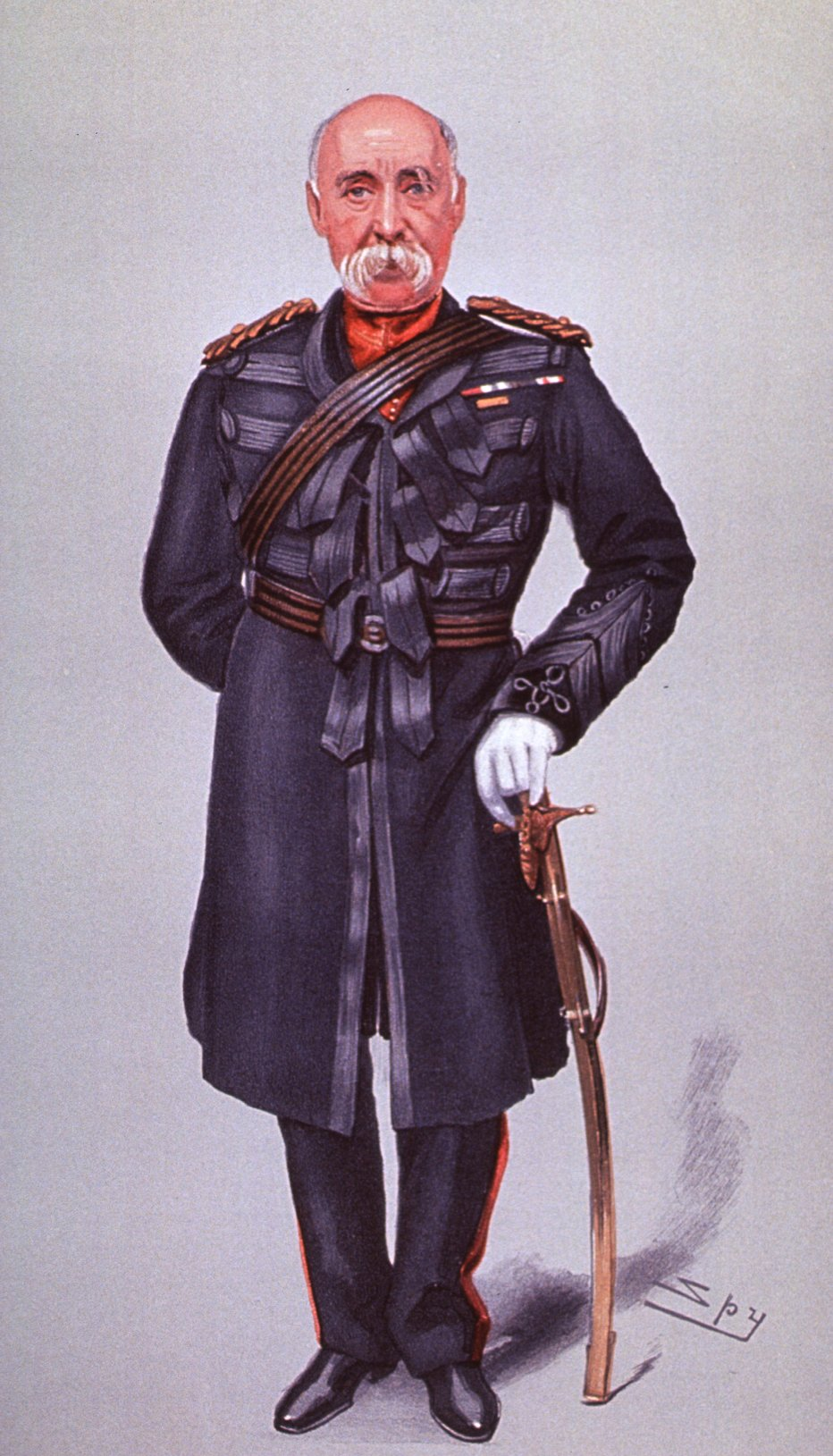 Men of the Day No.0817: Caricature of Surgeon-General James Jameson MD CB QH LLD [1]. Caption reads: "Army Medical"